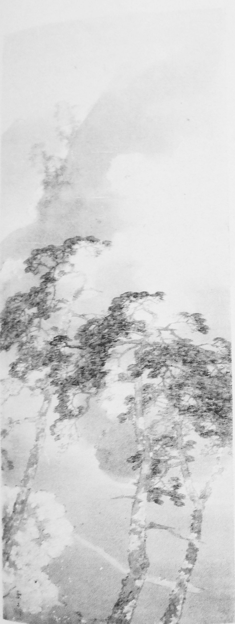 Painting of Manshu Kawamura (this file is black-and-white, but actual painting is colored)